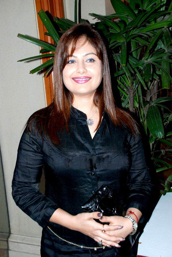 Ayesha Jhulka at the mahurat of Krantiveer - The Revolution